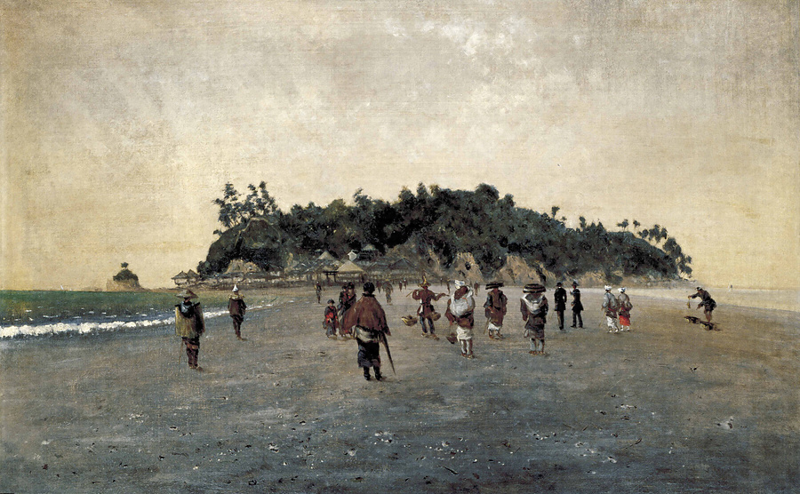 Enoshima by Takahashi Yuichi, The Museum of Modern Art, Kamakura and Hayama, Kamakura, Kanagawa, Japan